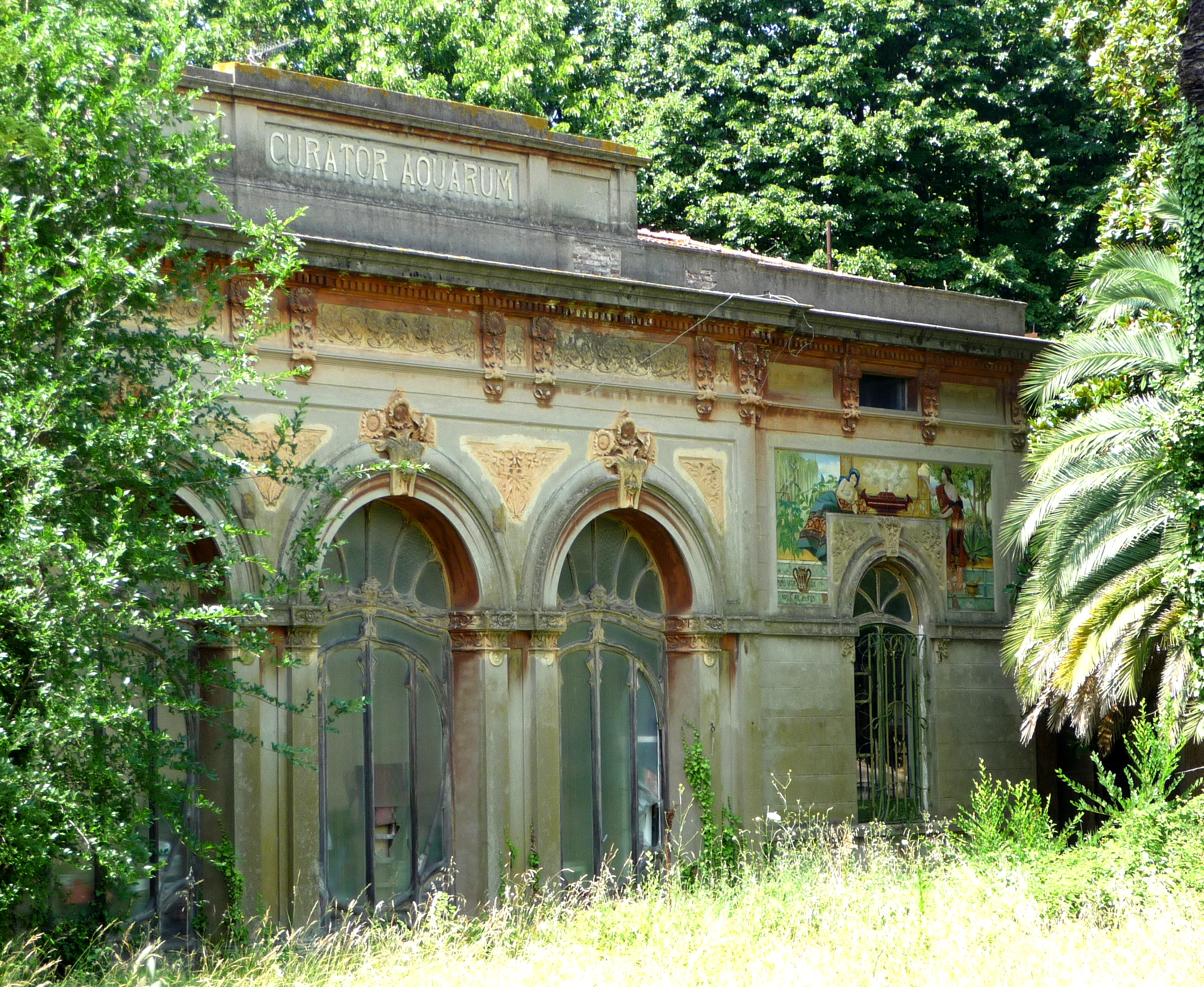 Livorno: Stabilimento termale Acque della Salute, Detail